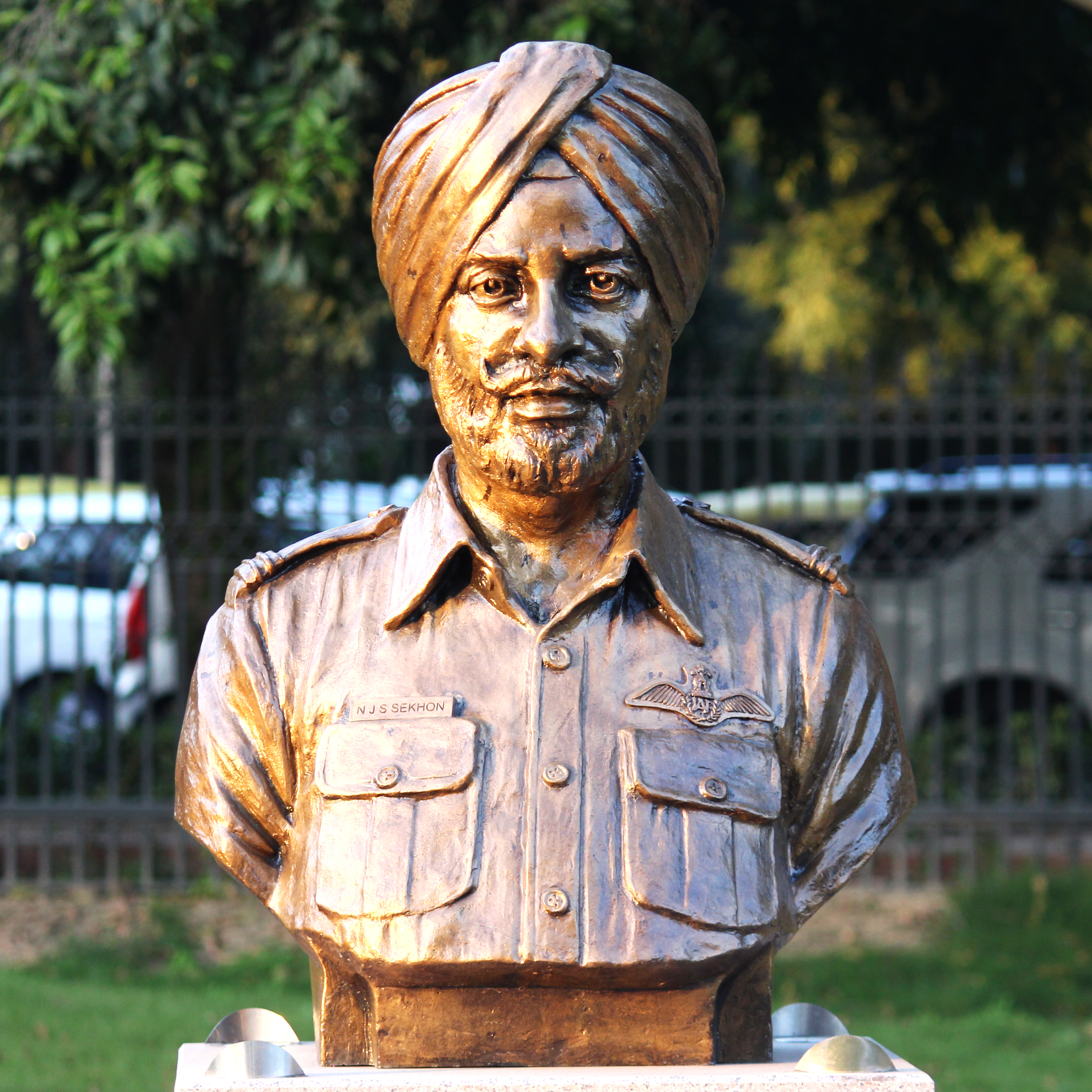 CHM Piru Singh's statue at Param Yodha Sthal (section for Param Vir Chakra recipients), National War Memorial, New Delhi.